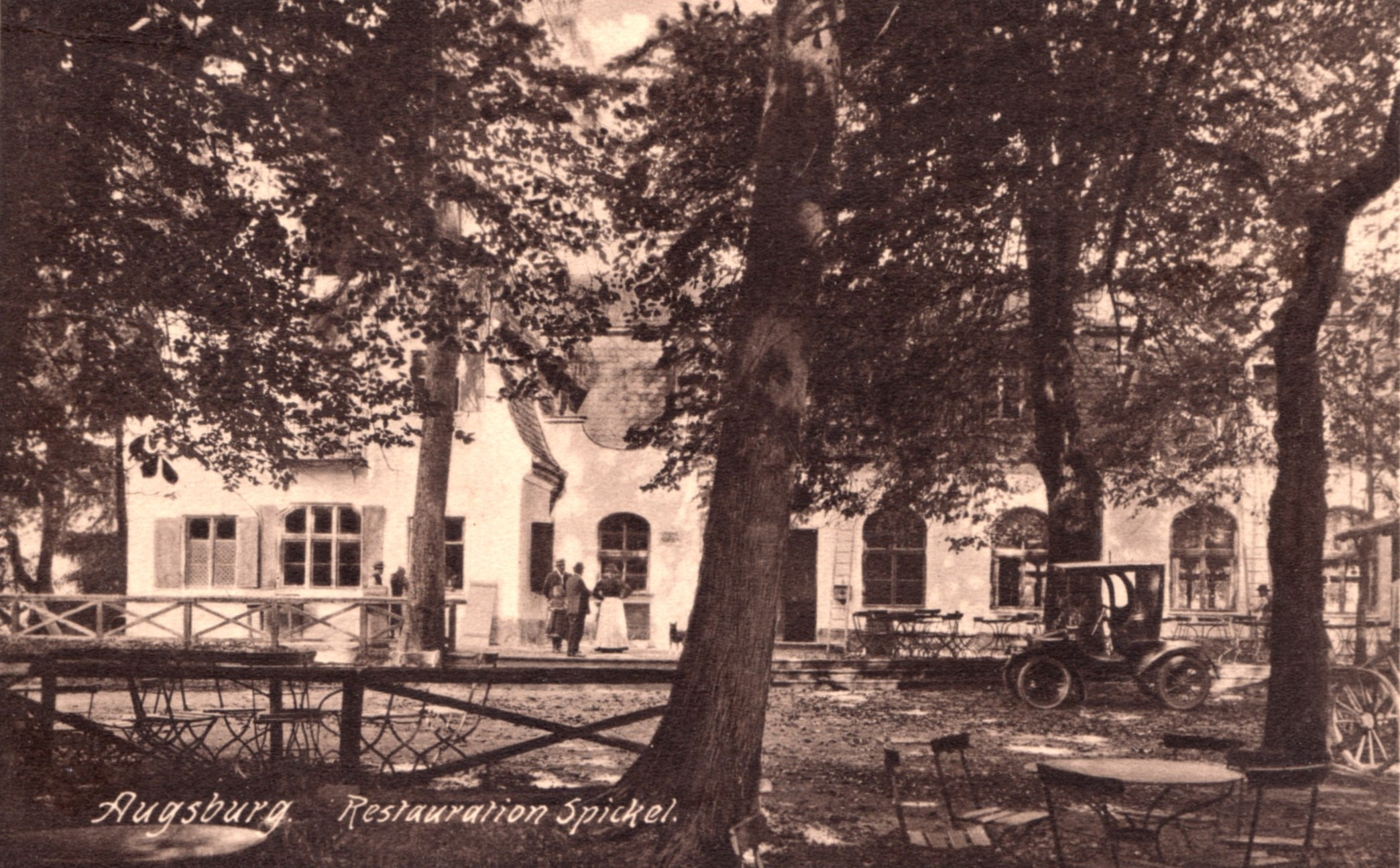 Spickel Restaurant, Augsburg, 1909